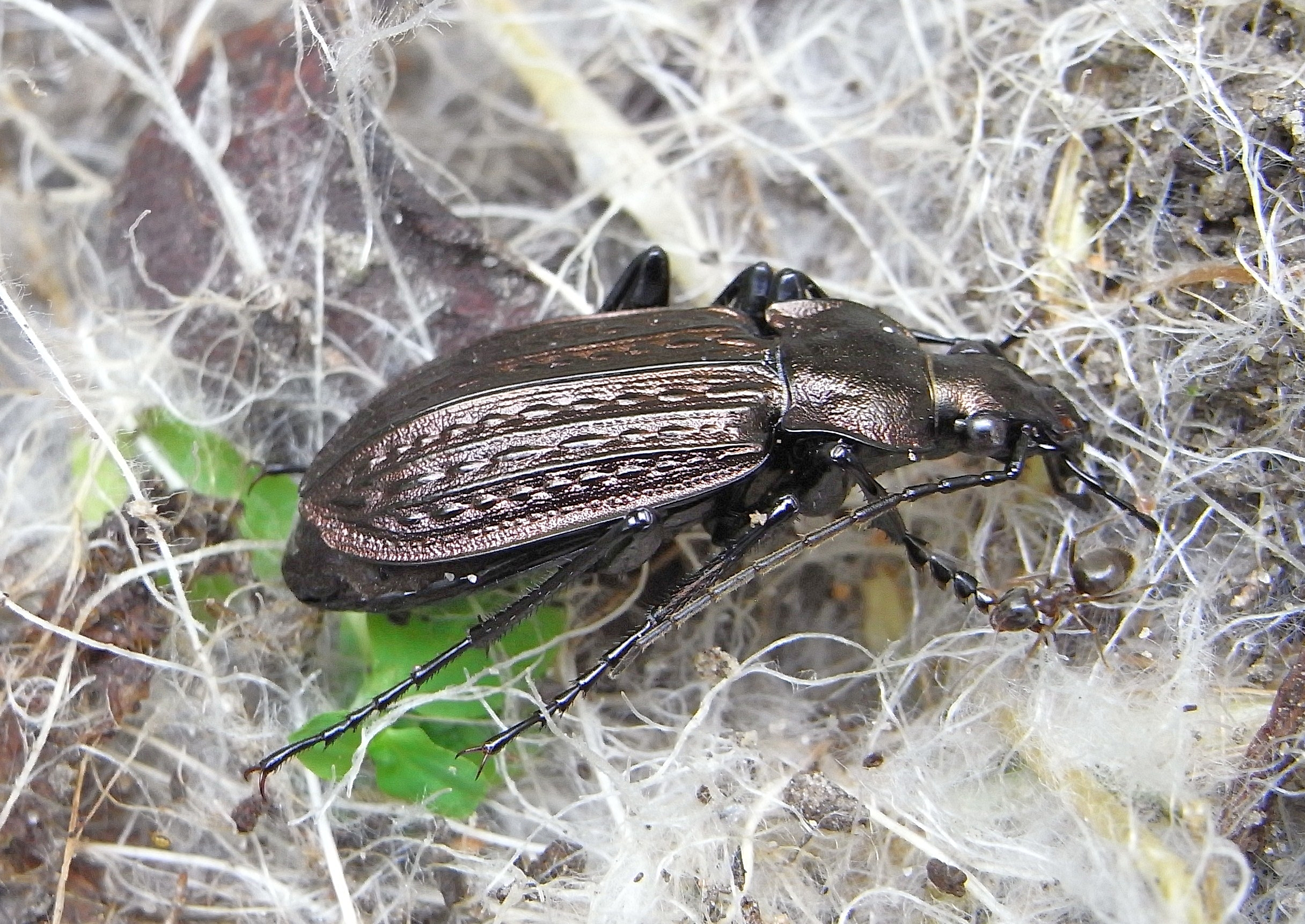 Carabus granulatus from Hungary, at 2010-07-05 under a rotten wood-log near Harkany